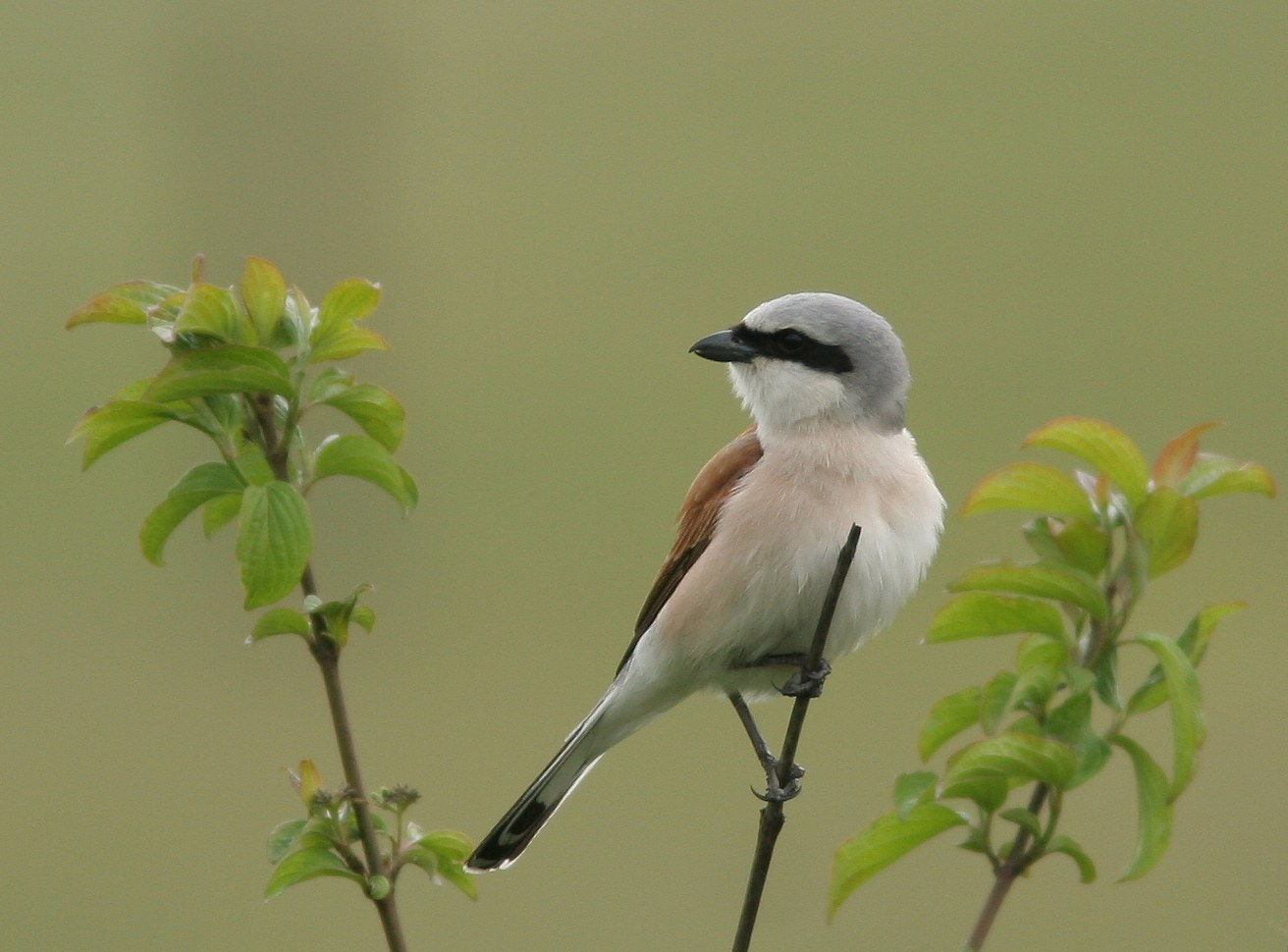 male Red-backed shrike, Czers, Poland